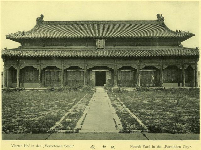 old photo from China 1900-1903, see the file's name for detail.